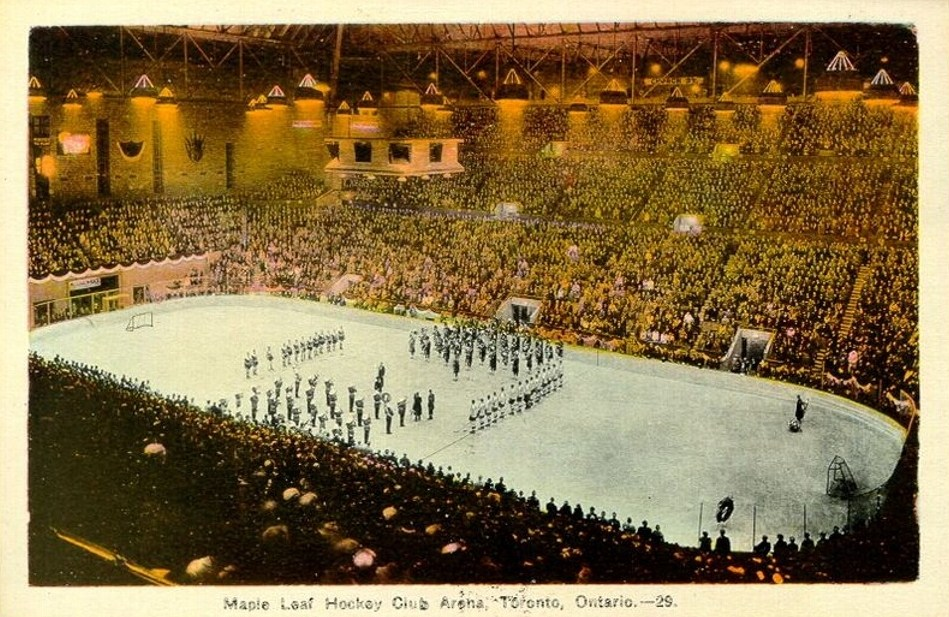 Postcard of the opening night ceremony of Maple Leaf Gardens (Toronto Maple Leafs vs. Chicago Black Hawks) in Toronto, Ontario, Canada. Postcard image is a reproduction of a photograph published in The Mail and Empire on November 11, 1931.